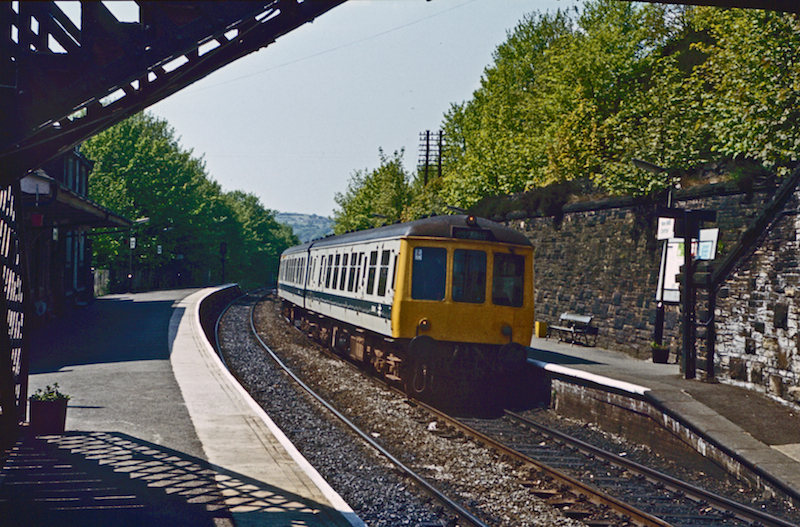 New Mills Central station, May 1980